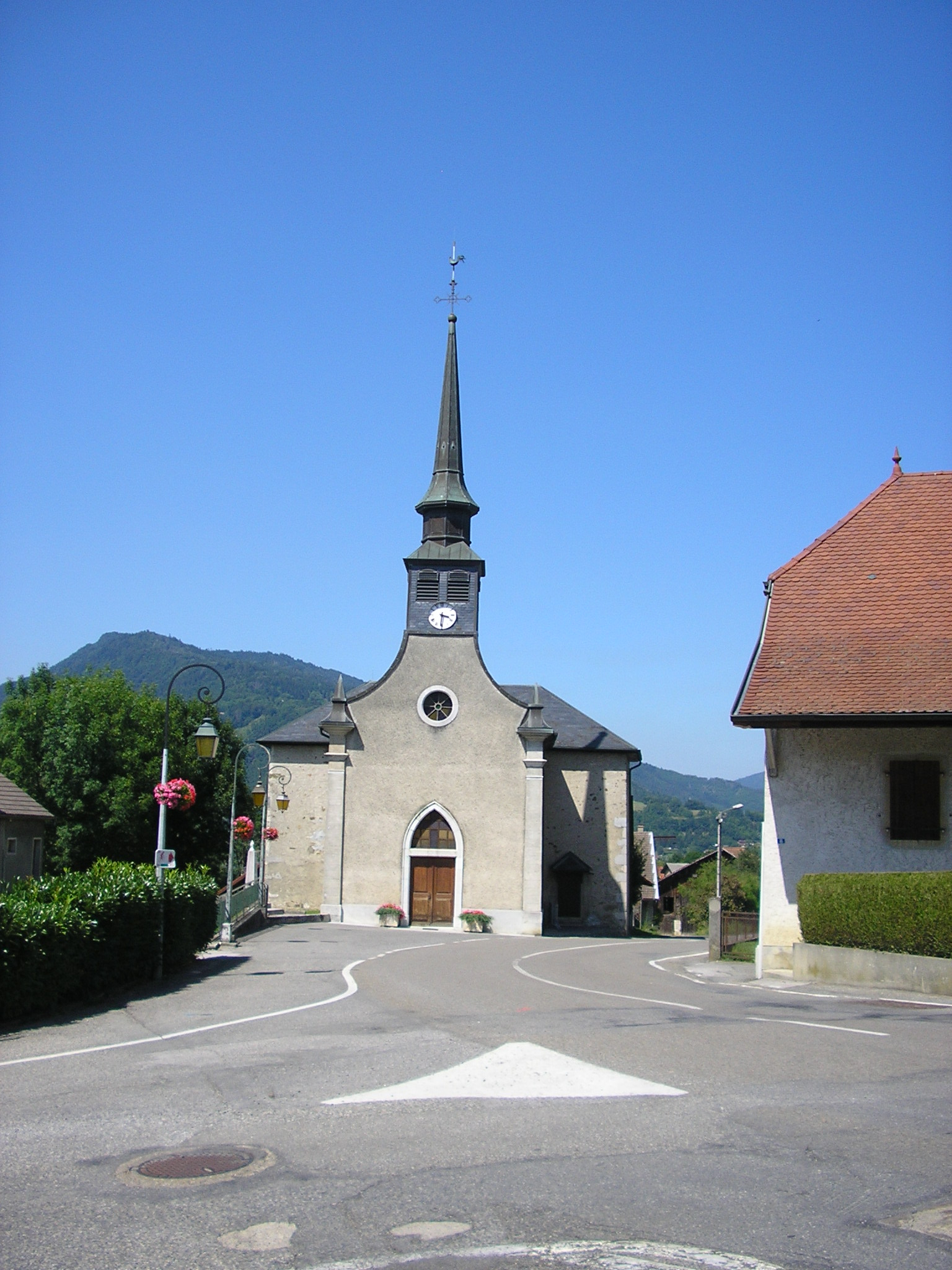 Marcellaz in Haute-Savoie, France. The church of the village.